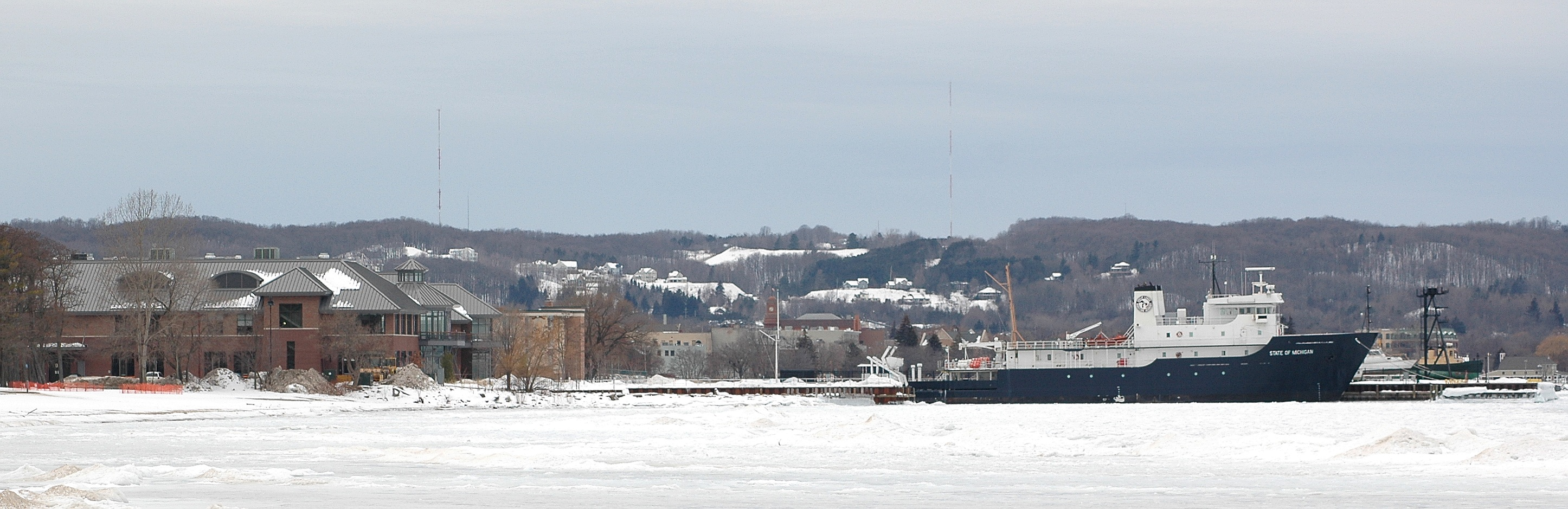 Northwestern Michigan College's Great Lakes Campus as seen from Bryant Park in Traverse City, Michigan also showing the Great Lakes Maritime Academy's teaching vessel, the T/S State of Michigan.